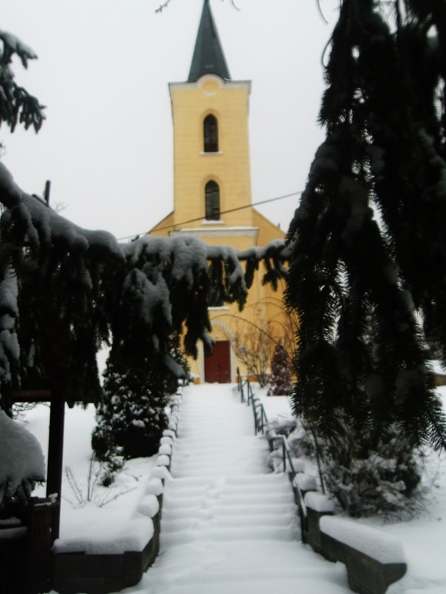 Dunafoldvar, Hungary